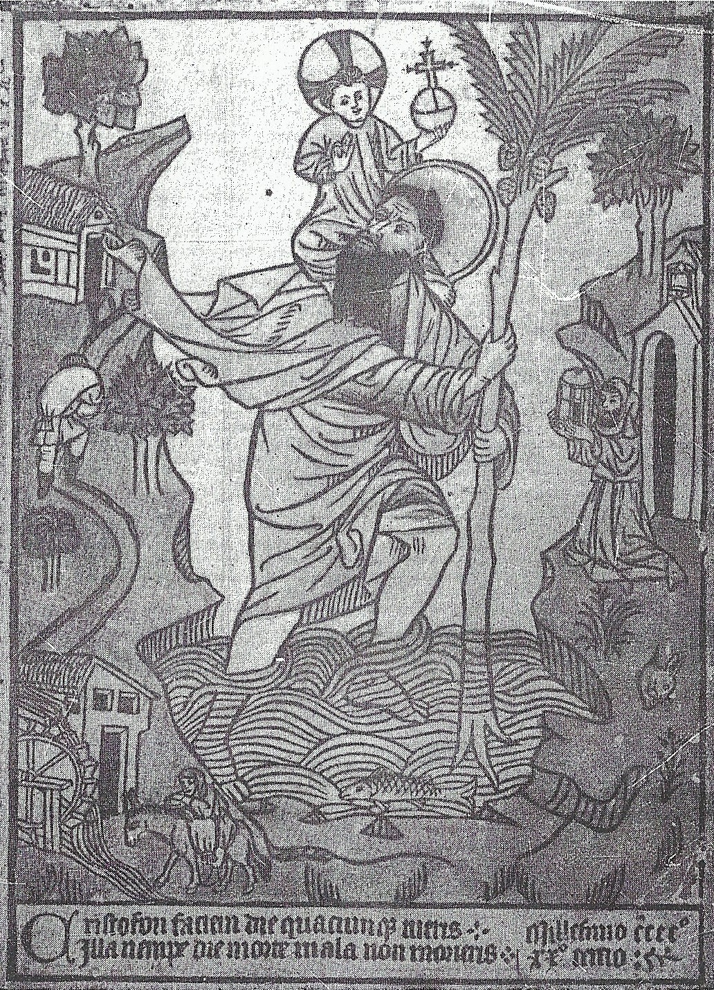 Woodcut print of St Christopher from Buxheim on the Upper Rhine dated 1423. The print is held in the John Rylands Library in Manchester. This is generally regarded as the earliest datable woodcut in Europe, although the date on the print could simply commemorate a particular event in that year.The inscription can be translated "In whatsoever day thou seest the likeness of St Christopher, In that same day thou wilt from death no evil blow incur".